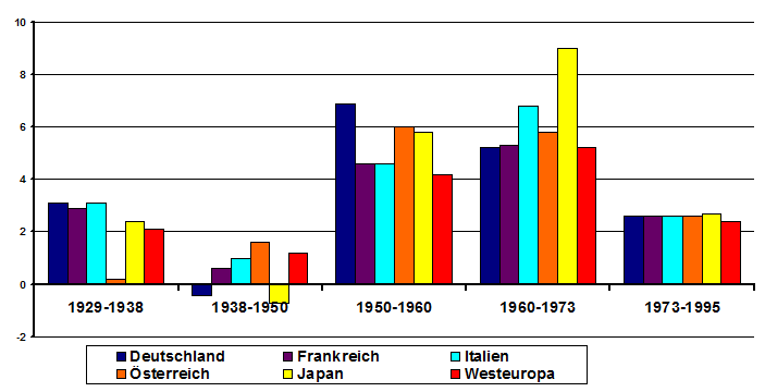 average productivity growth 1929-1995